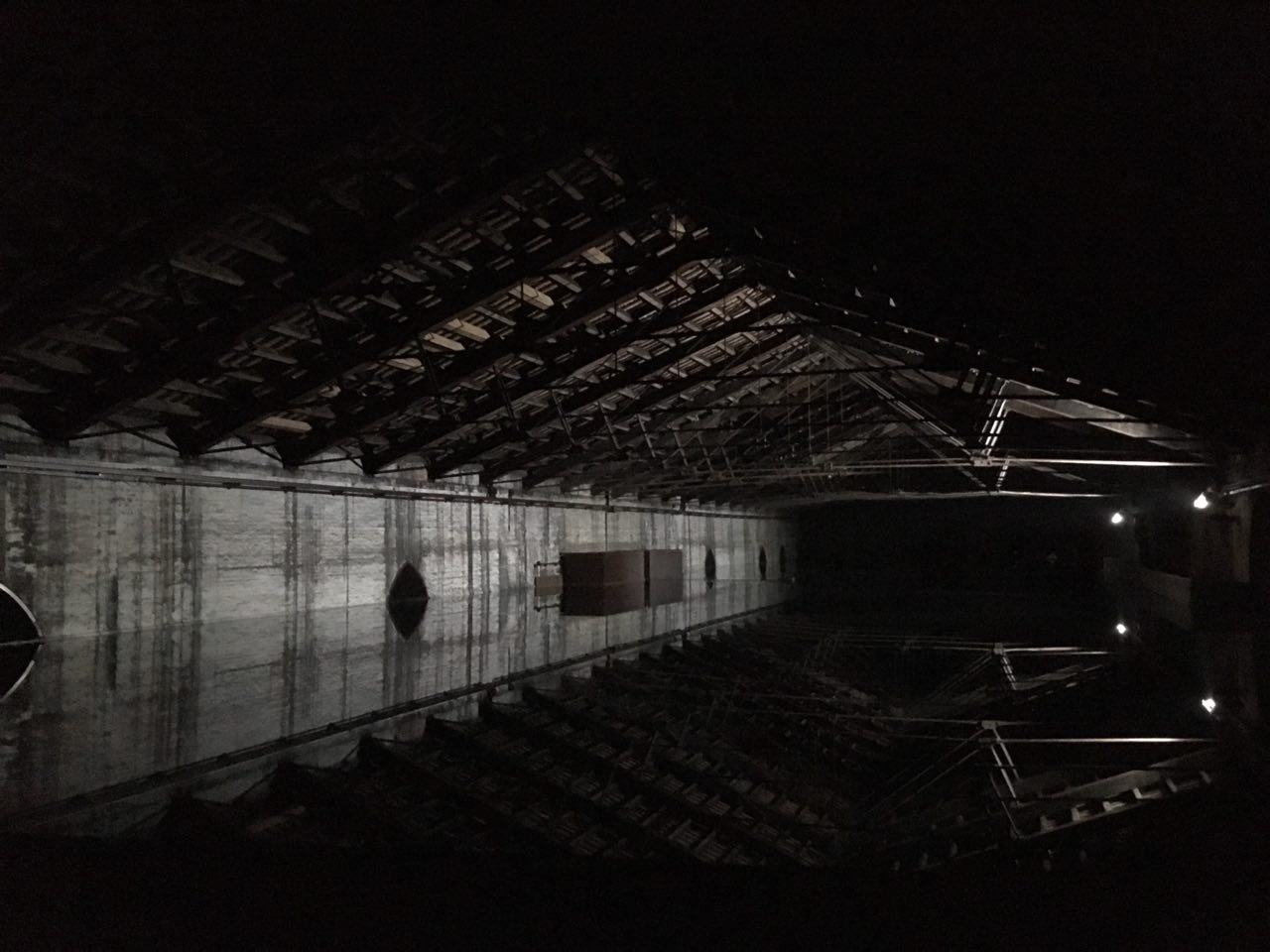 Art installation by Giorgio Andreotta Calò at Padiglione Italia for the Biennale 57th International Art Exhibition